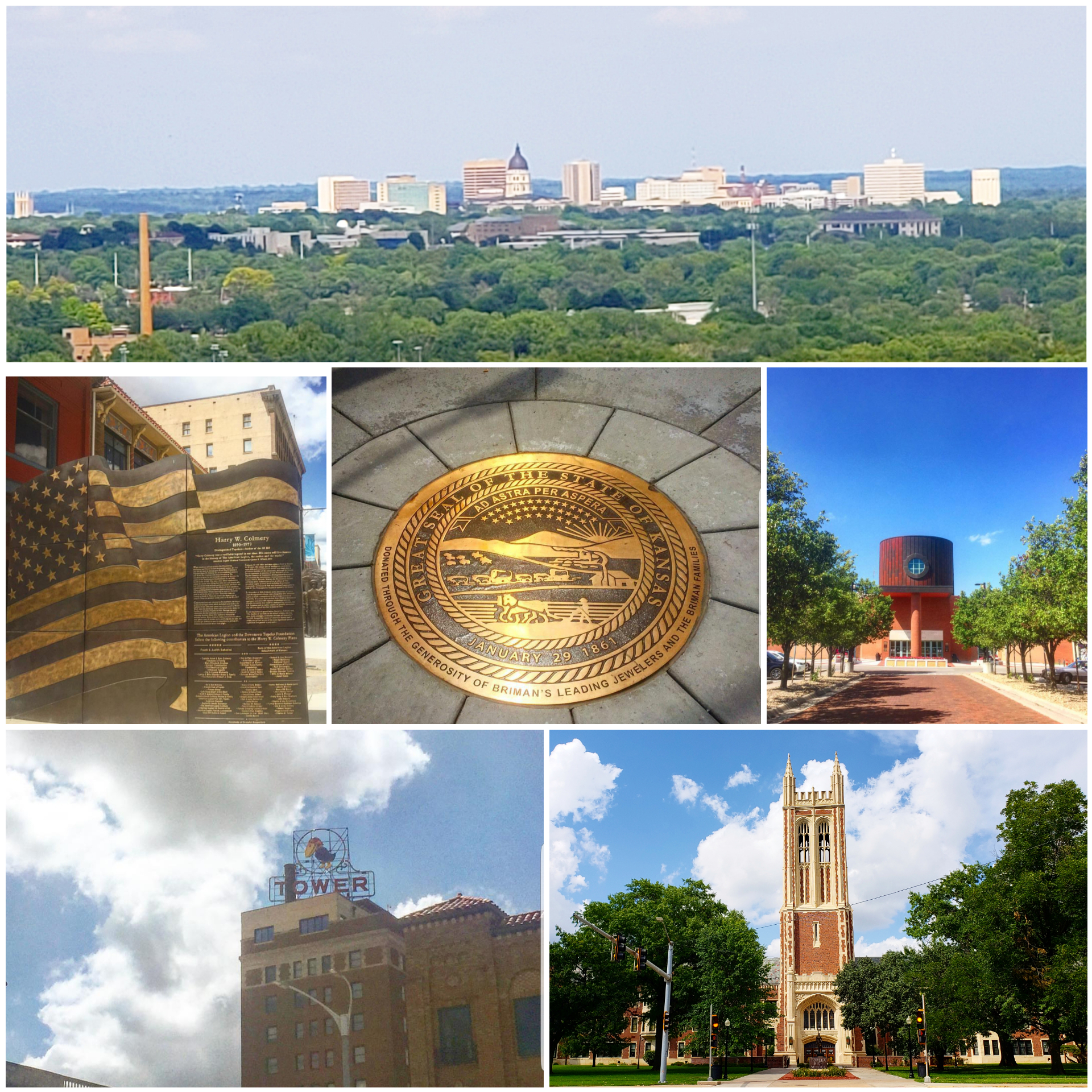 A collage of landmarks in Topeka, Kansas